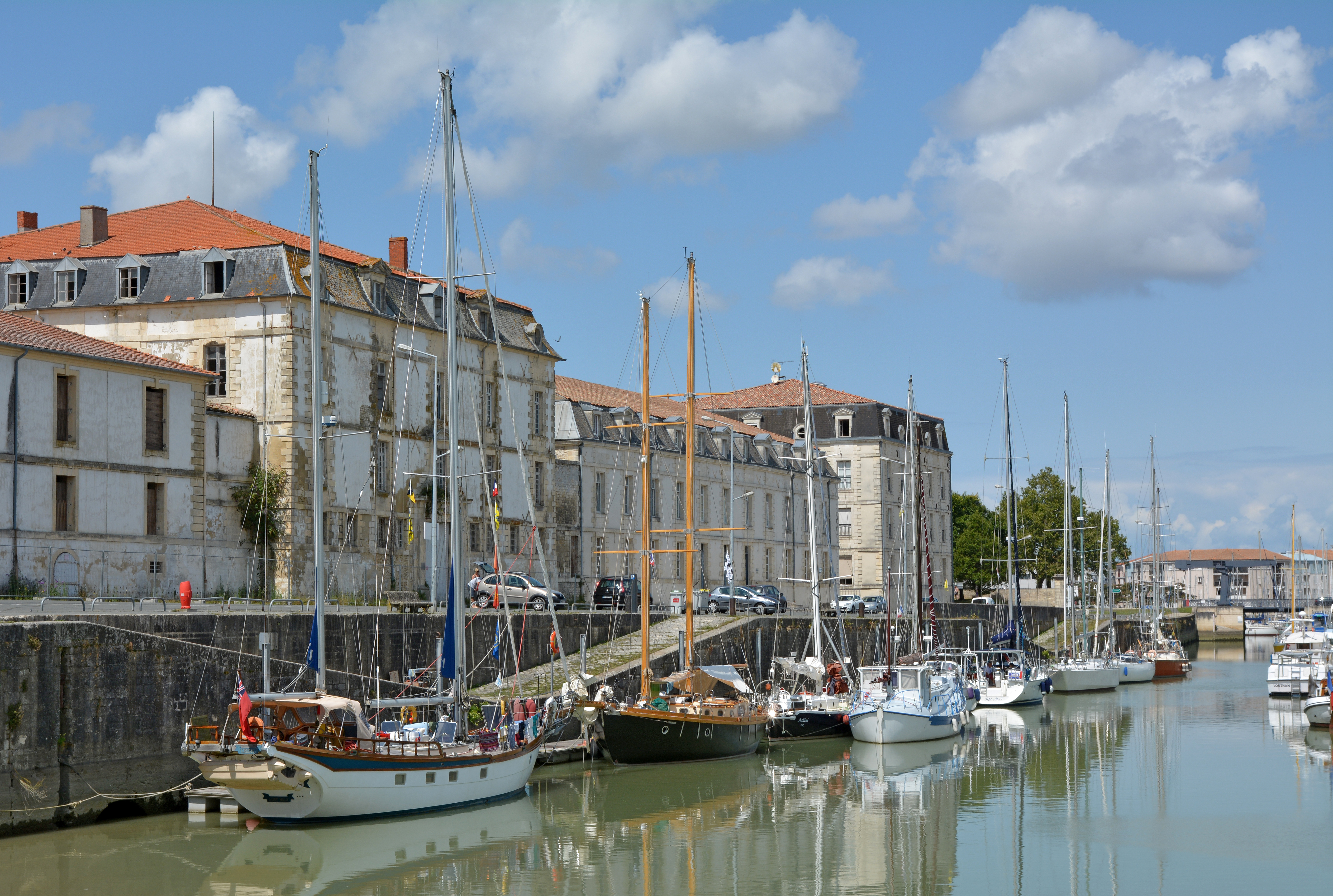 Magasin aux vivres in Rochefort, Charente-Maritime, France .